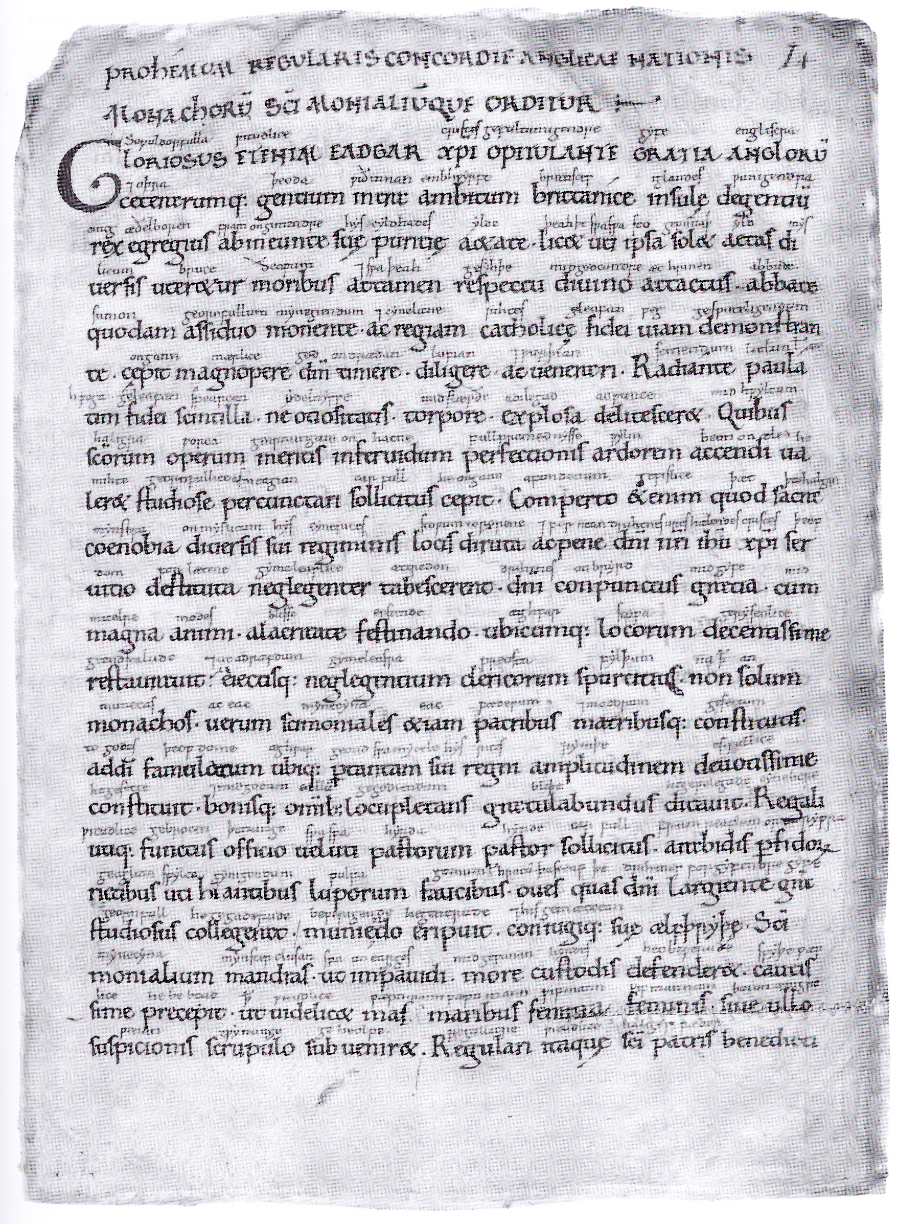 Folio 3 reverse of British Library ms Cotton Tiberius A.iii - the beginning of the Regularis Concordia by Aethelwold. This copy is from about 1050 and was written at Canterbury. There is a gloss in Old English for the Latin text, with the gloss being in smaller letters.